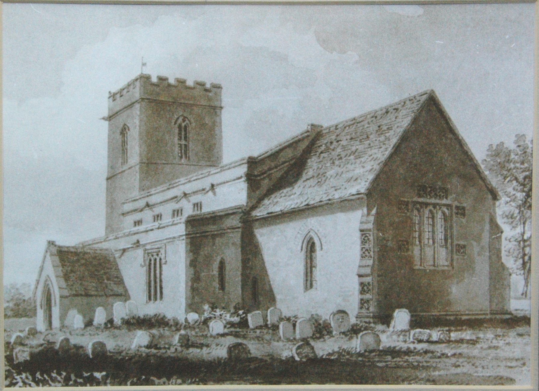 Church of England parish church of St Olave, Fritwell, Oxfordshire: view of the church from the south-east before 1865, when it was restored.